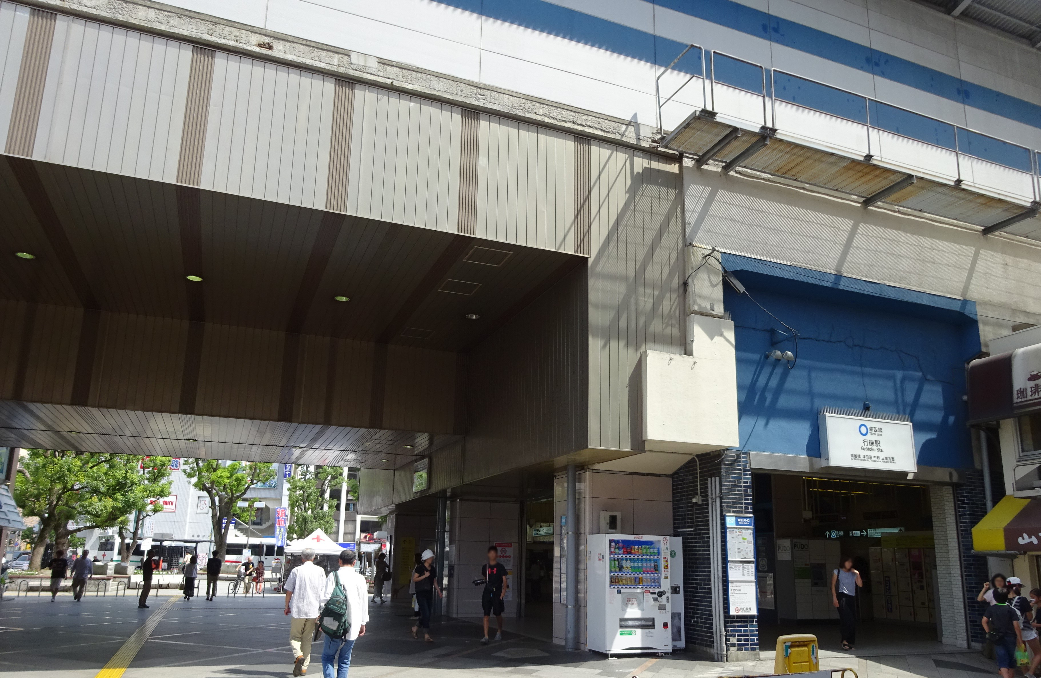 North entrance of Gyōtoku Station